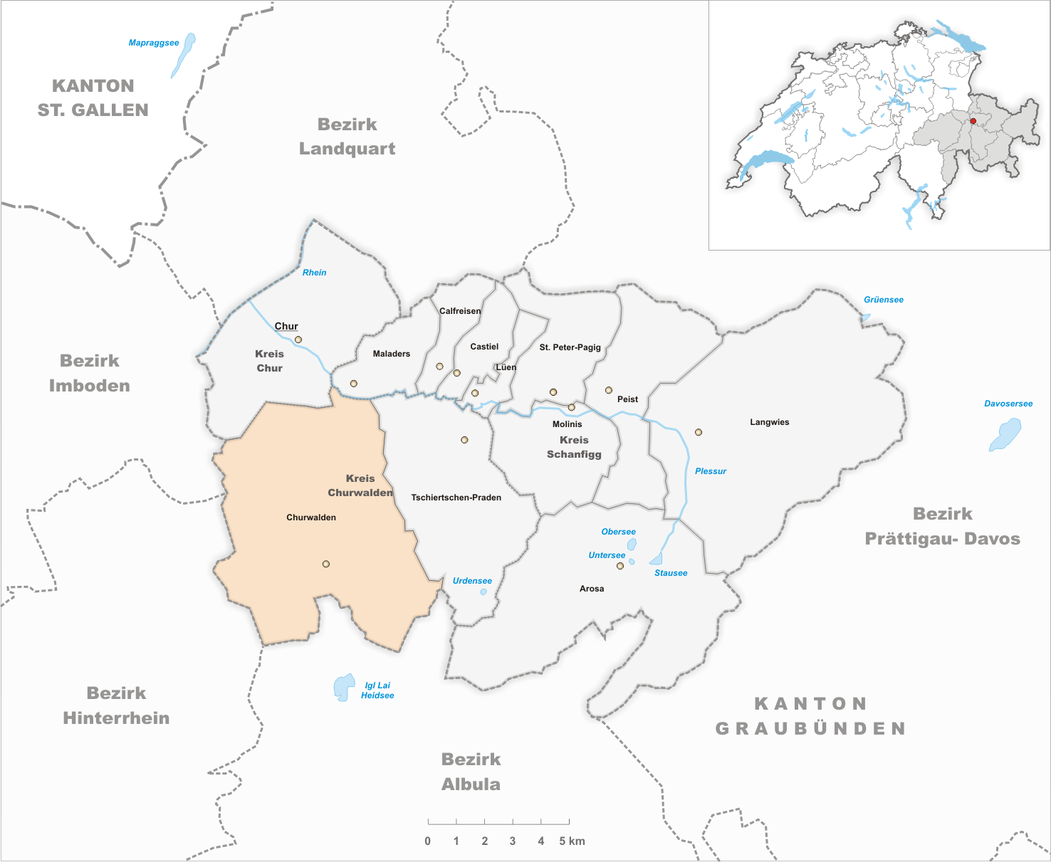 Municipality Churwalden